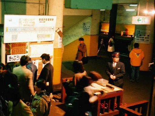 Wicket of Hakubutsukan-Doubutsuen Sta.